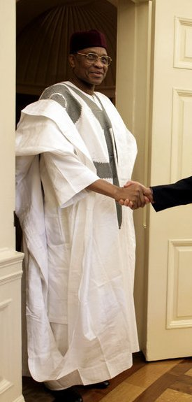 Mamadou Tandja, President of Niger, visiting George W. Bush at the Oval Office in June 2005.